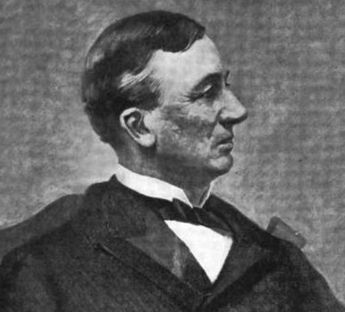 Owen Vincent Coffin (Connecticut Governor)